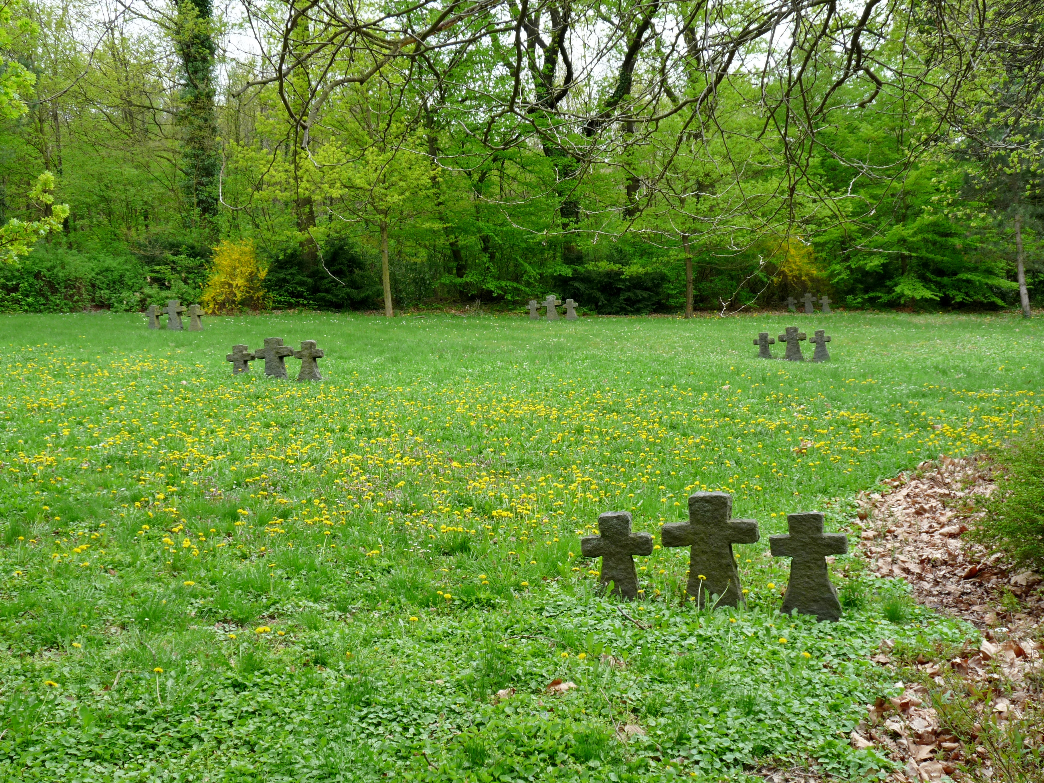 German World War II mass graves in the Heroes' Cemetery in Sopronbánfalva (Hungary). Granite crosses were erected in 1995.